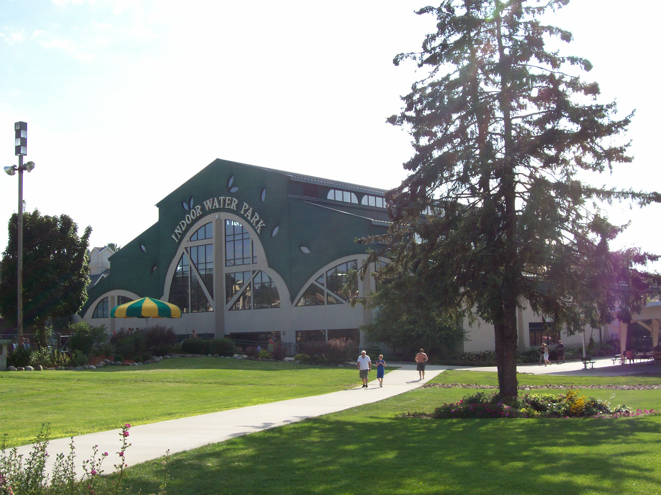 The indoor water park at Mt. Olympus Water & Theme Park in Wisconsin Dells, Wisconsin, USA. Taken September 2, 2007 by myself.